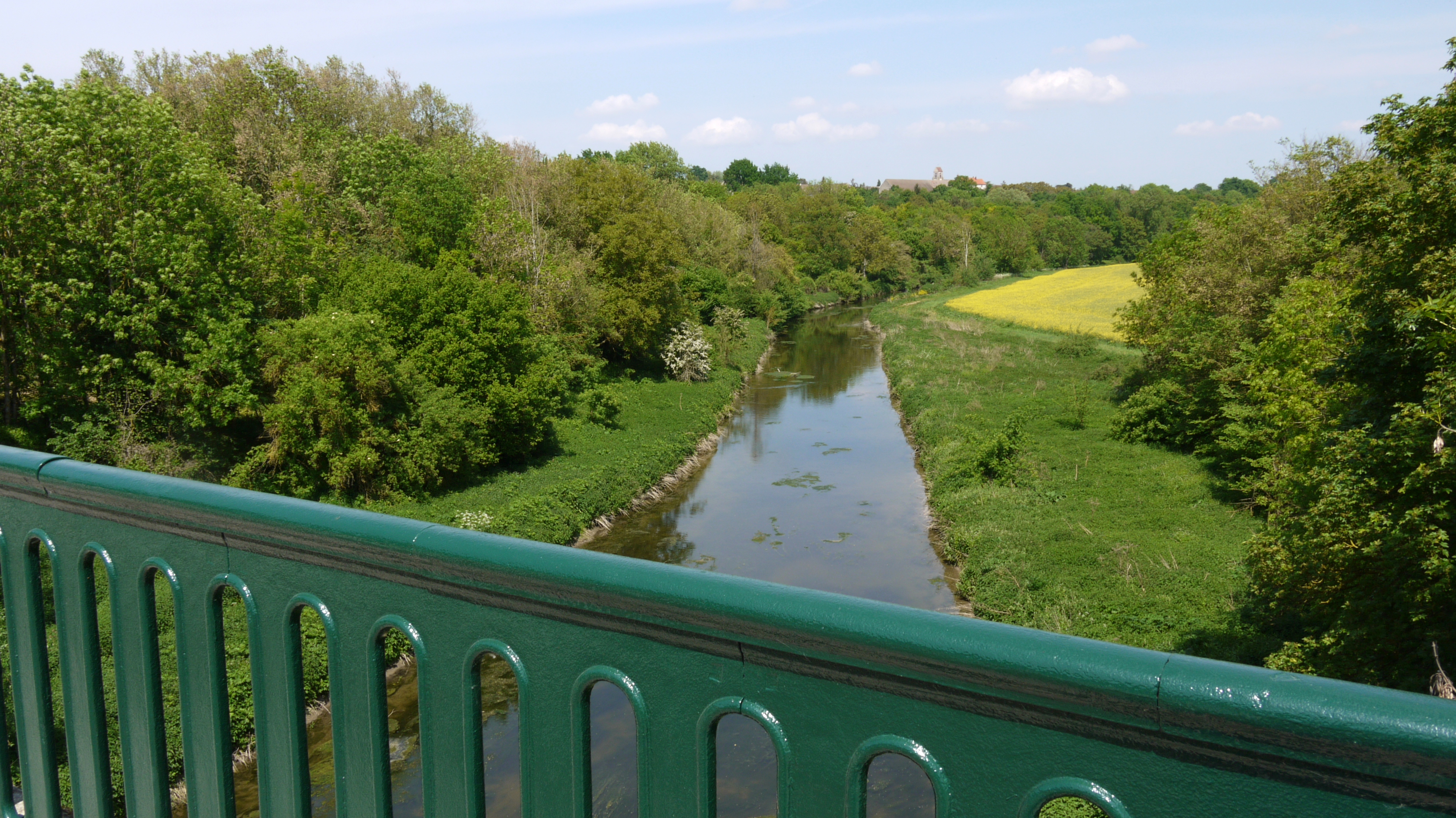 The Yerres river near Soignolles_en_Brie (Seine et Marne, France) as seen from the railways bridge used by the bikeway "Le chemin des Roses"